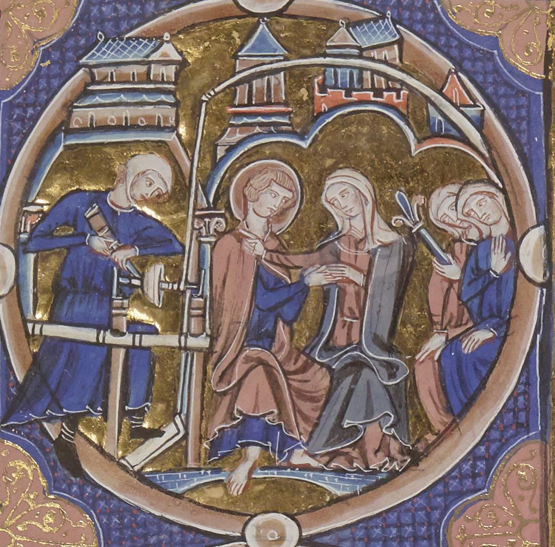 Lathe, 13th century, from the french part of the Bible moralisée Oxford-Paris-London